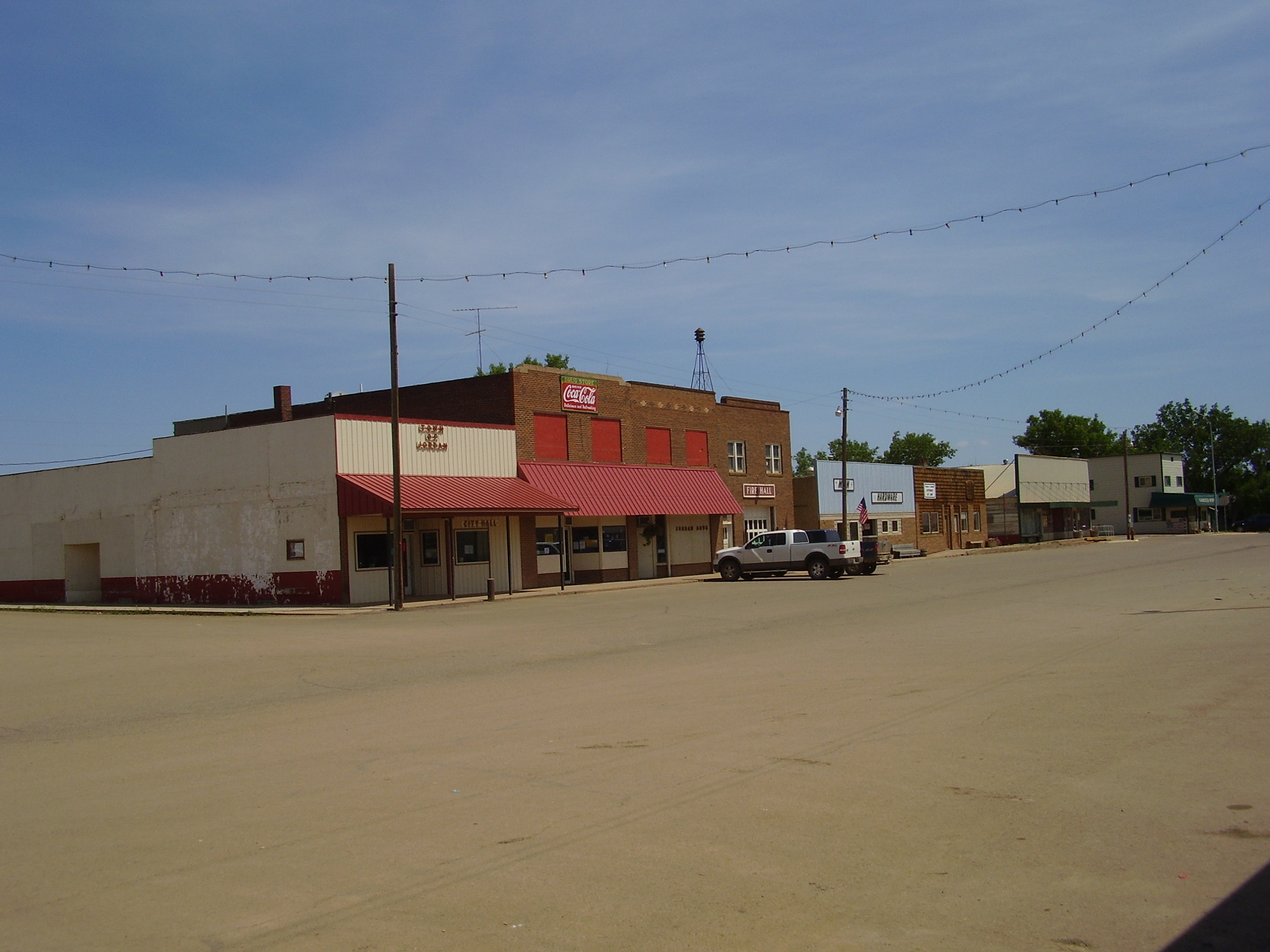 View of the street of Jordan, Montana (July, 2009).